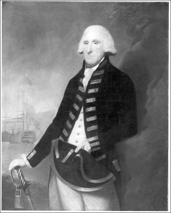 Lord Hood